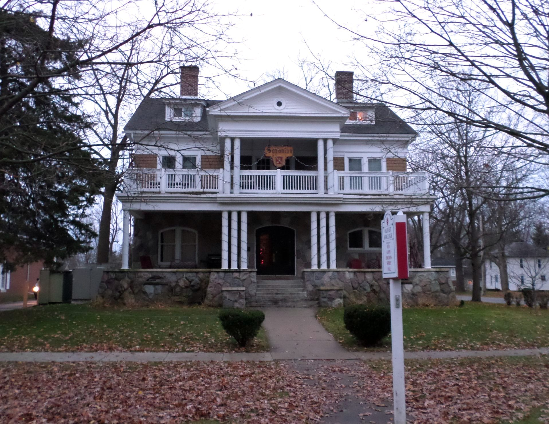 Sperry Hall, located at 232 Cottage St. on the campus of Olivet College, Olivet, MI.